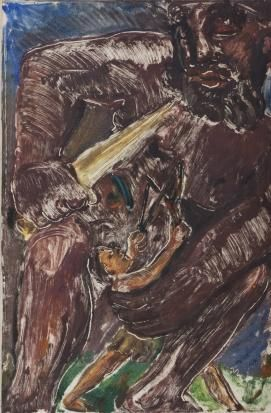 A monotype by Lippy Lipshitz, printed in colours, signed, dated 1948 and inscribed Monotype (53 x 34 cm)